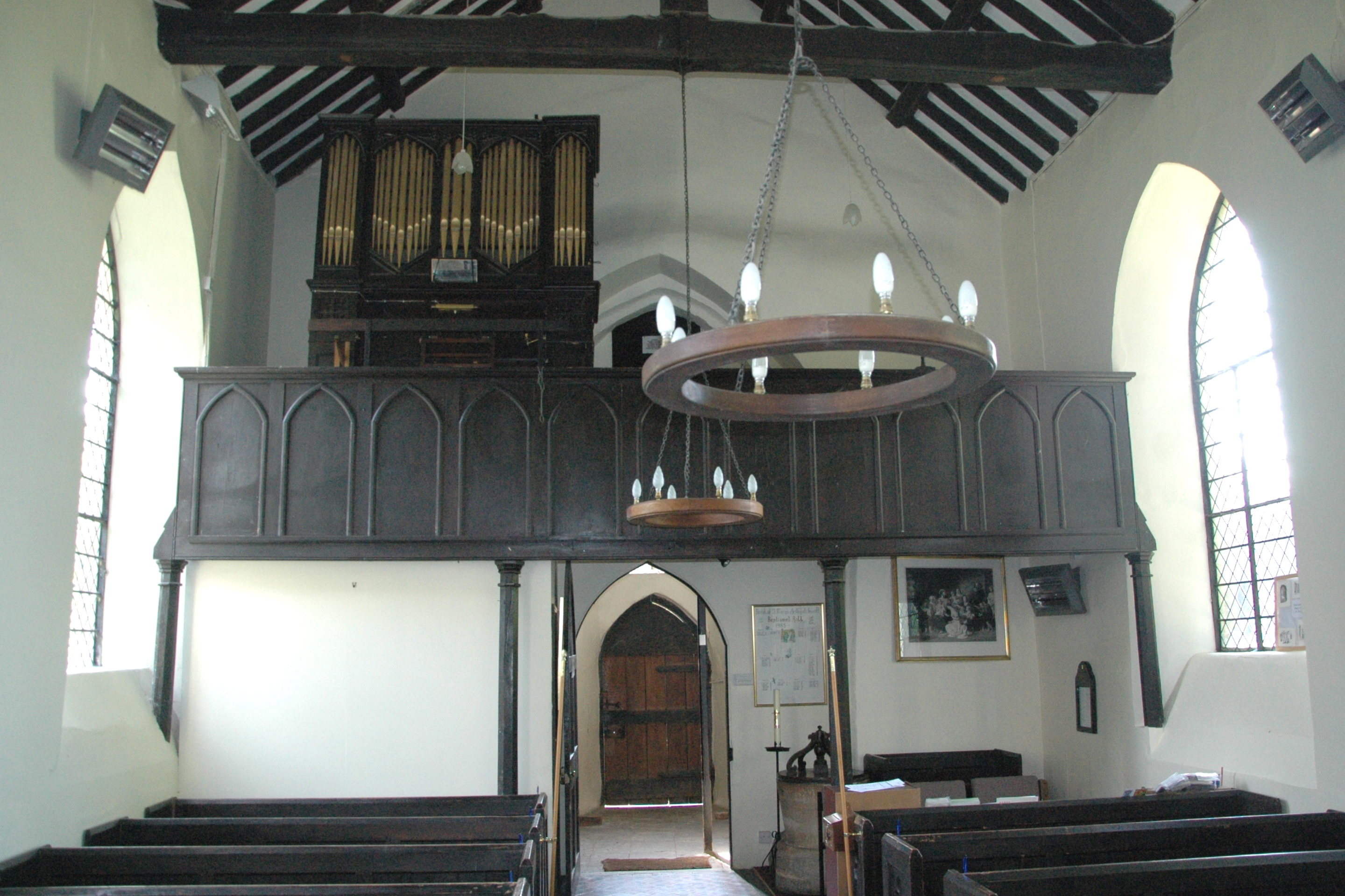 Church of England parish church of St Mary, Ardley, Oxfordshire: interior of nave, looking west to West Gallery added in 1834.